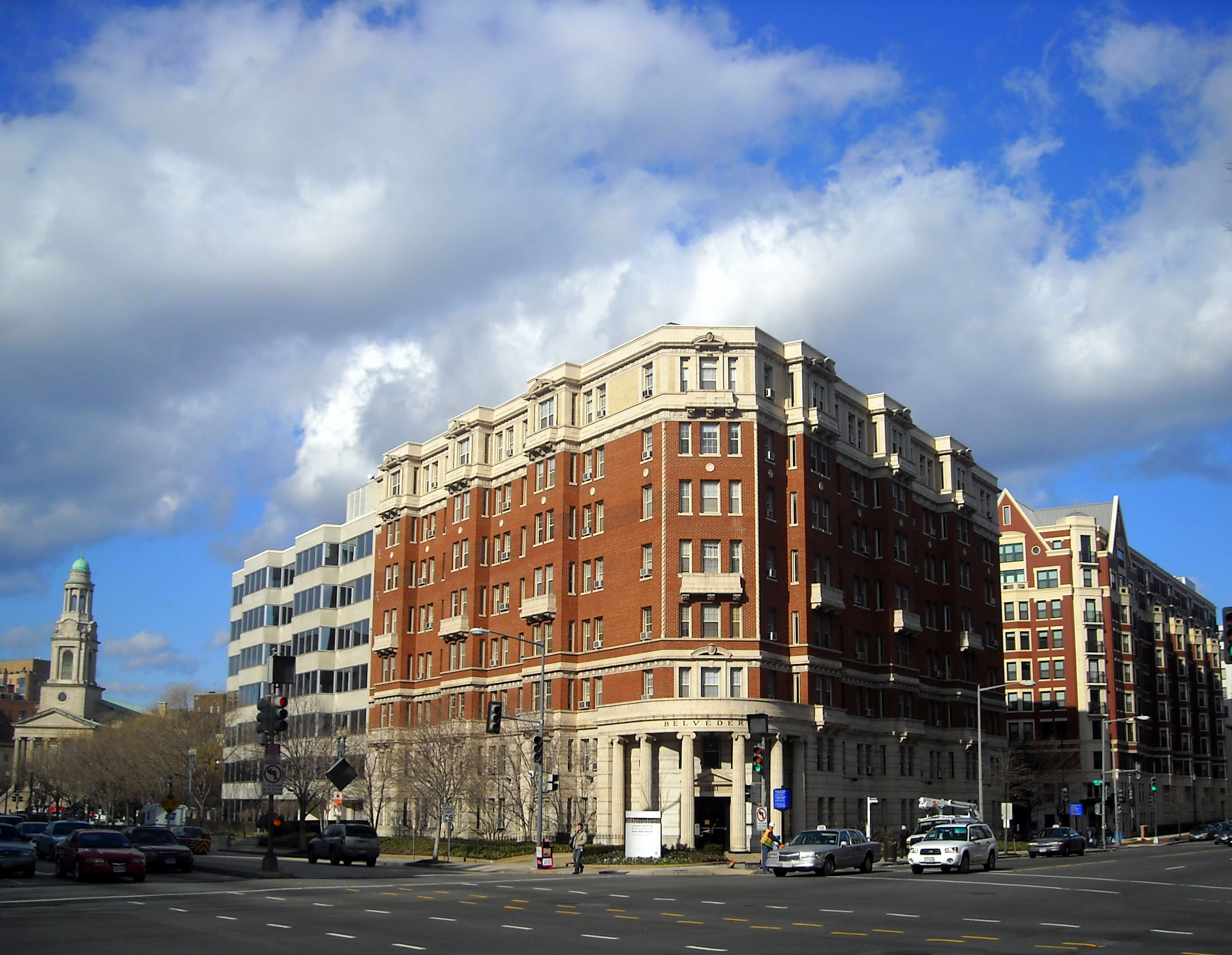 Intersection of 13th Street & Massachusetts Avenue, NW in the Logan Circle neighborhood of Washington, D.C. The Belvedere, constructed in 1927, is the center building. To its right is the National Air Traffic Controllers Association headquarters. The building on the far left is National City Christian Church, constructed in 1935 and located on Thomas Circle. It was designed by John Russell Pope, architect of the Jefferson Memorial, and is a contributing property to the Greater Fourteenth Street Historic District. On the far right is a recently constructed apartment building, the Jefferson at Thomas Circle.